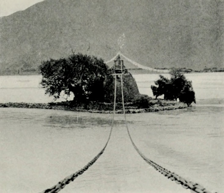 Old Chain-Bridge at Chaksam, 1904